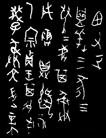 Freehand drawing of Zhou Dynasty Oracle Bone Script